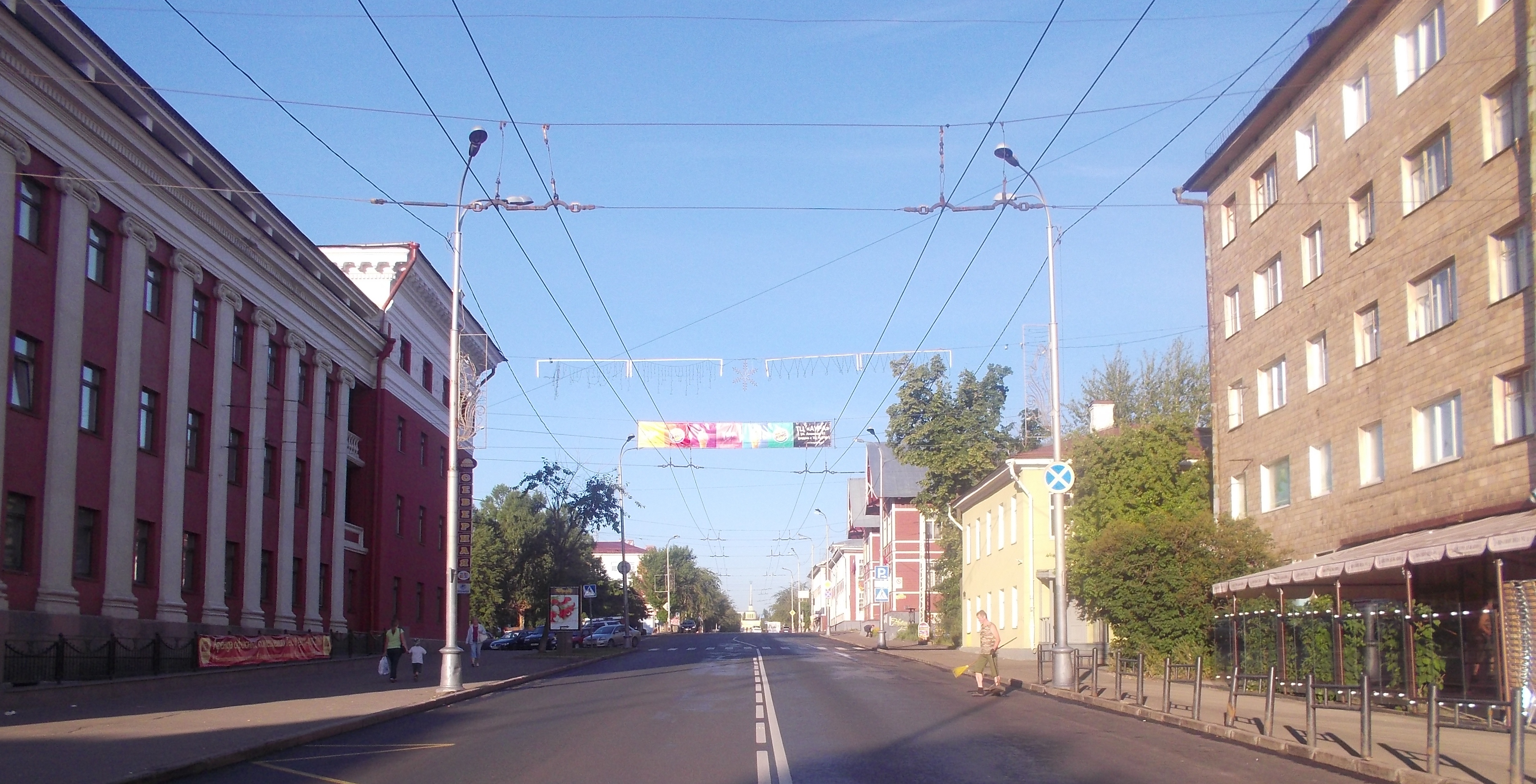 Petrozavodsk prospekt lenina